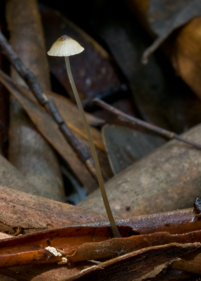 A fruit body of the fungus Mycena cystidiosa G. Stev. Photographed in State Forest near Comboyne, New South Wales, Australia.